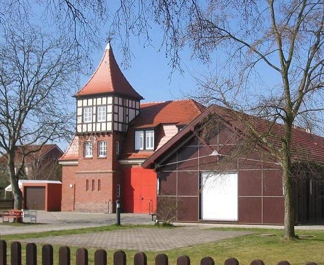 Station of the volunteer fire department and community hall in Ahrensdorf. The building was erected in 1912 and restored in 1995/97. The village Ahrensdorf is a part of Ludwigsfelde, town in the district Teltow-Fläming, state Brandenburg, Germany.